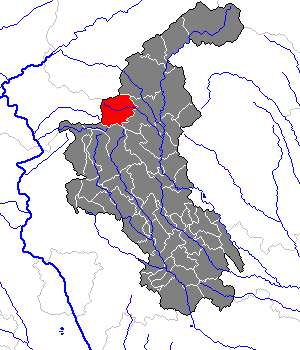 This map shows the area of the Gemeinde (municipality) Gasen in the Bezirk (district) Weiz, Styria, Austria.